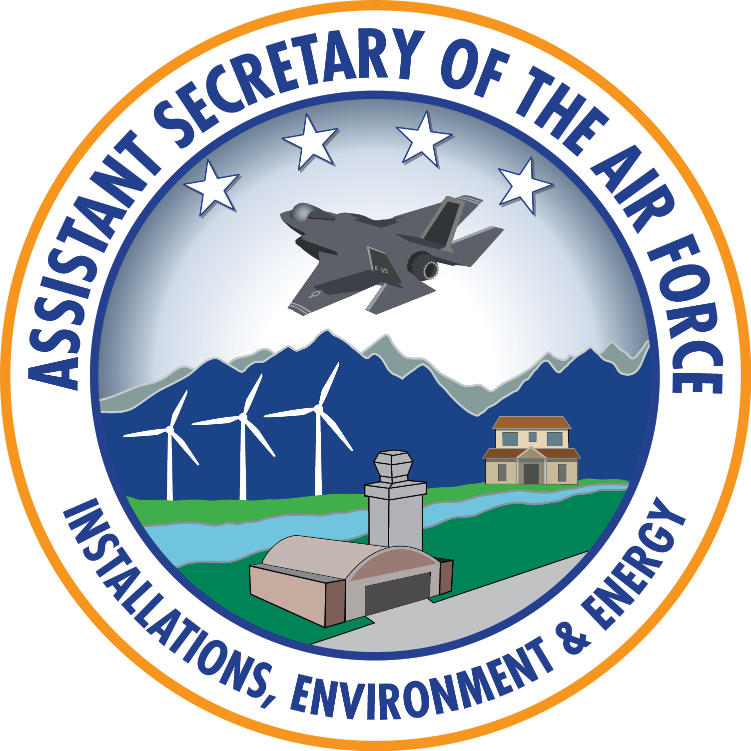 SAF-IE Logo